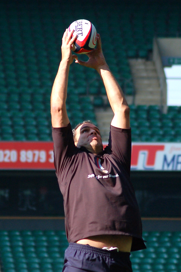 Martin Johnson